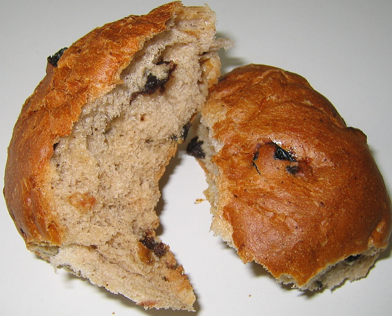 Stuck - a pastry with currants and cinnamon sold in Berchtesgaden.